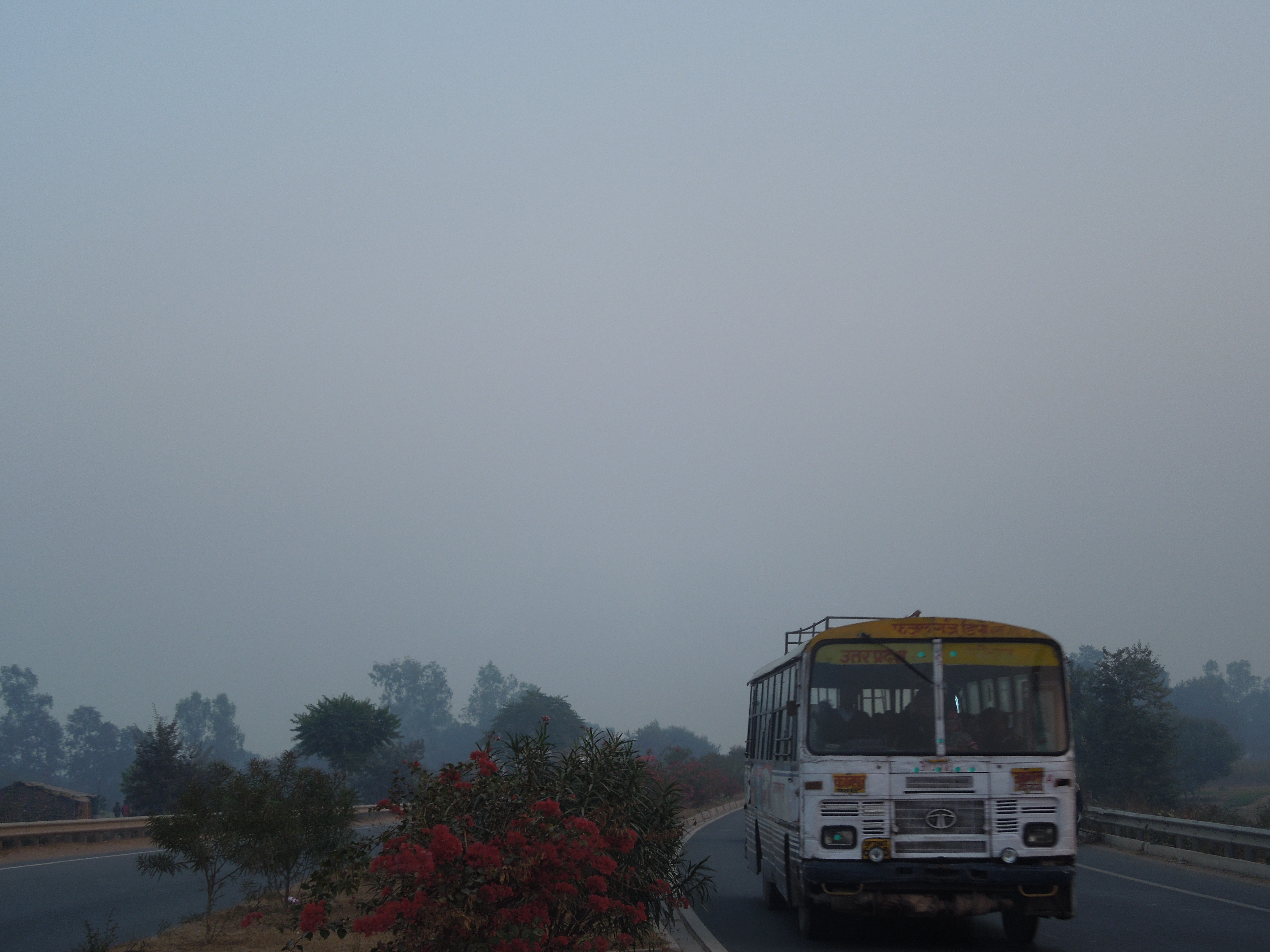 national highway, mahewa, etawah, uttar pradesh